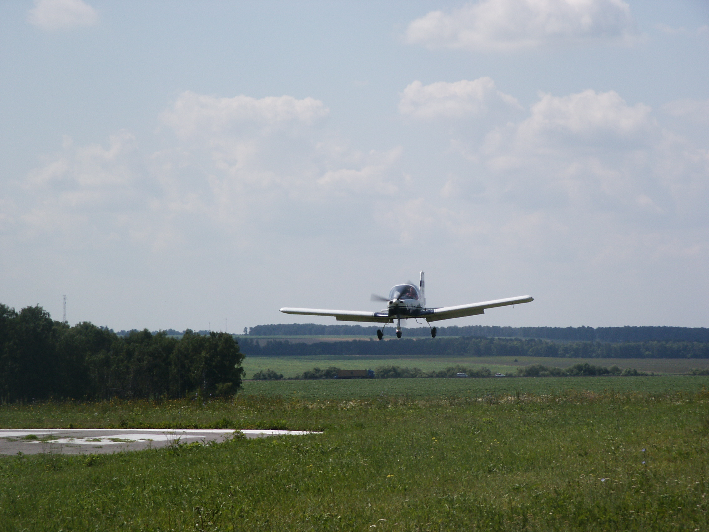 Tecnam Golf P-96 aircraft (landing) Самолёт Tecnam Golf P-96 на посадке